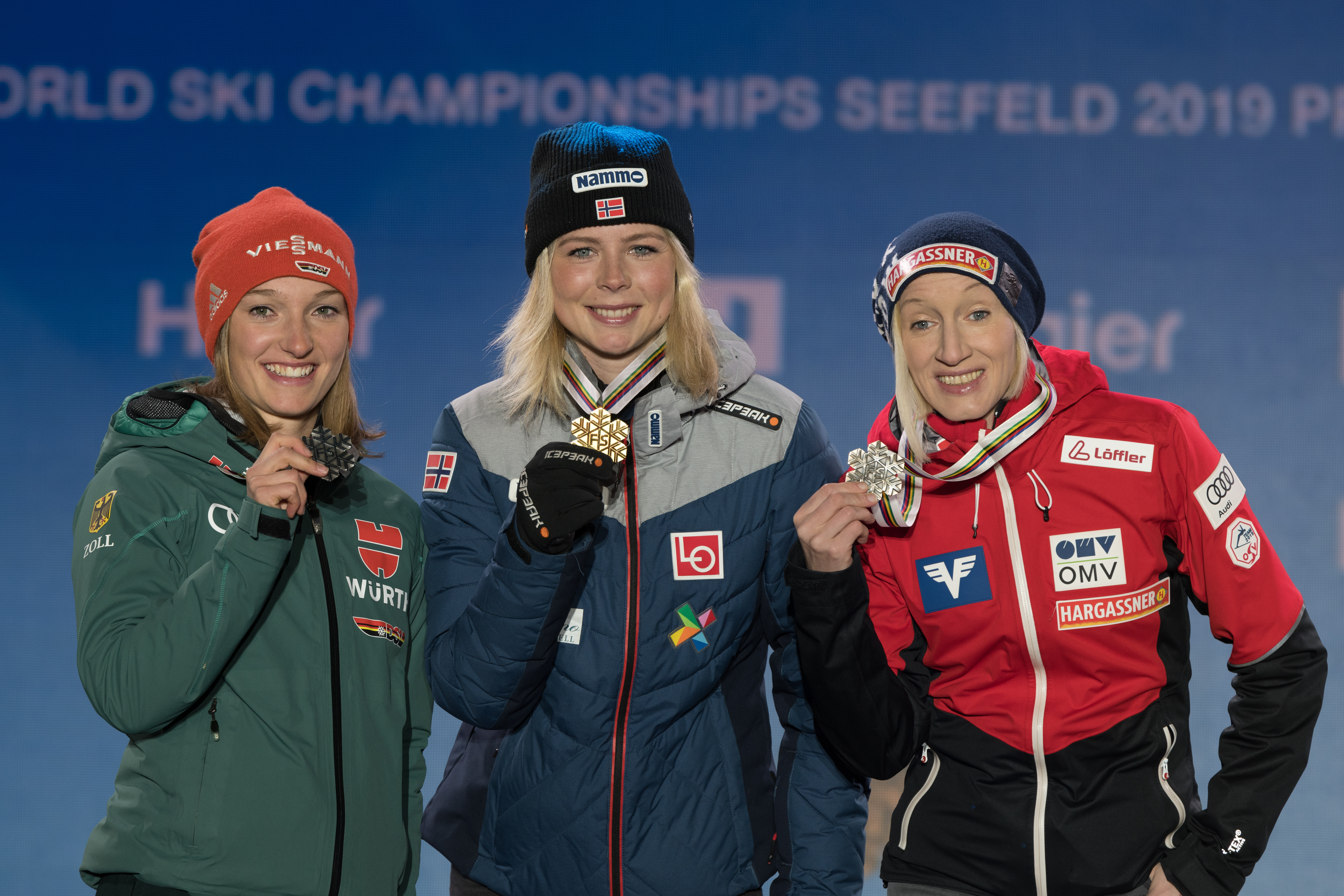 FIS Nordic World Ski Championships Seefeld 2019 - Medal Ceremony at the Medal Plaza. Picture shows Katharina Althaus (GER), Maren Lundby (NOR), Daniela Iraschko-Stolz (AUT).